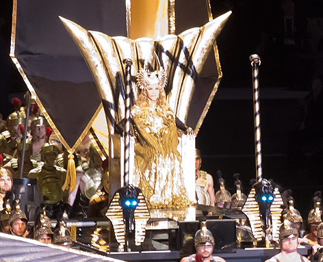 Madonna Halftime show Madonna performing on the Super Bowl XLVI halftime show